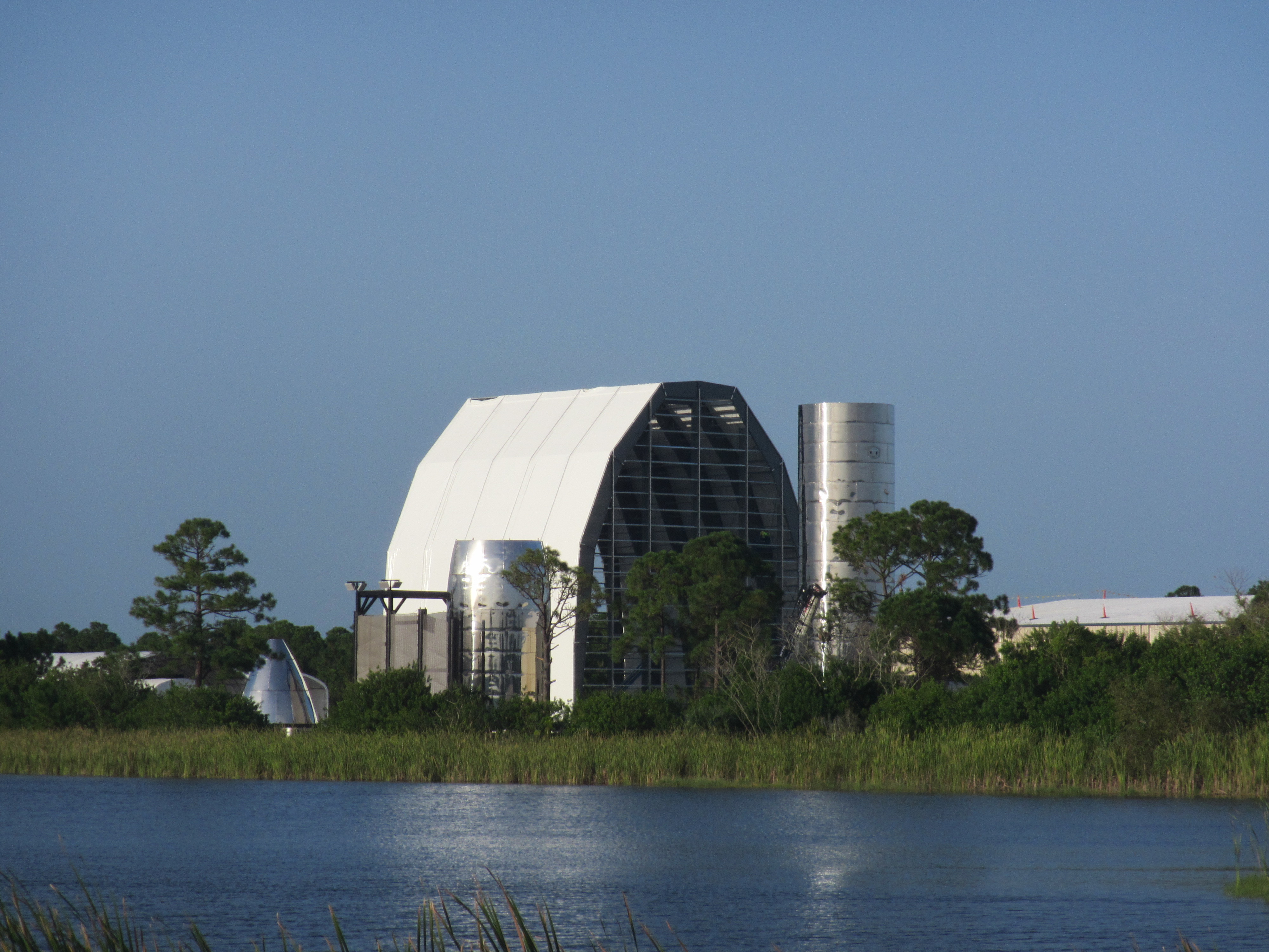 3 major hull components of SpaceX Starship under construction in Cocoa, Fl., in August 2019